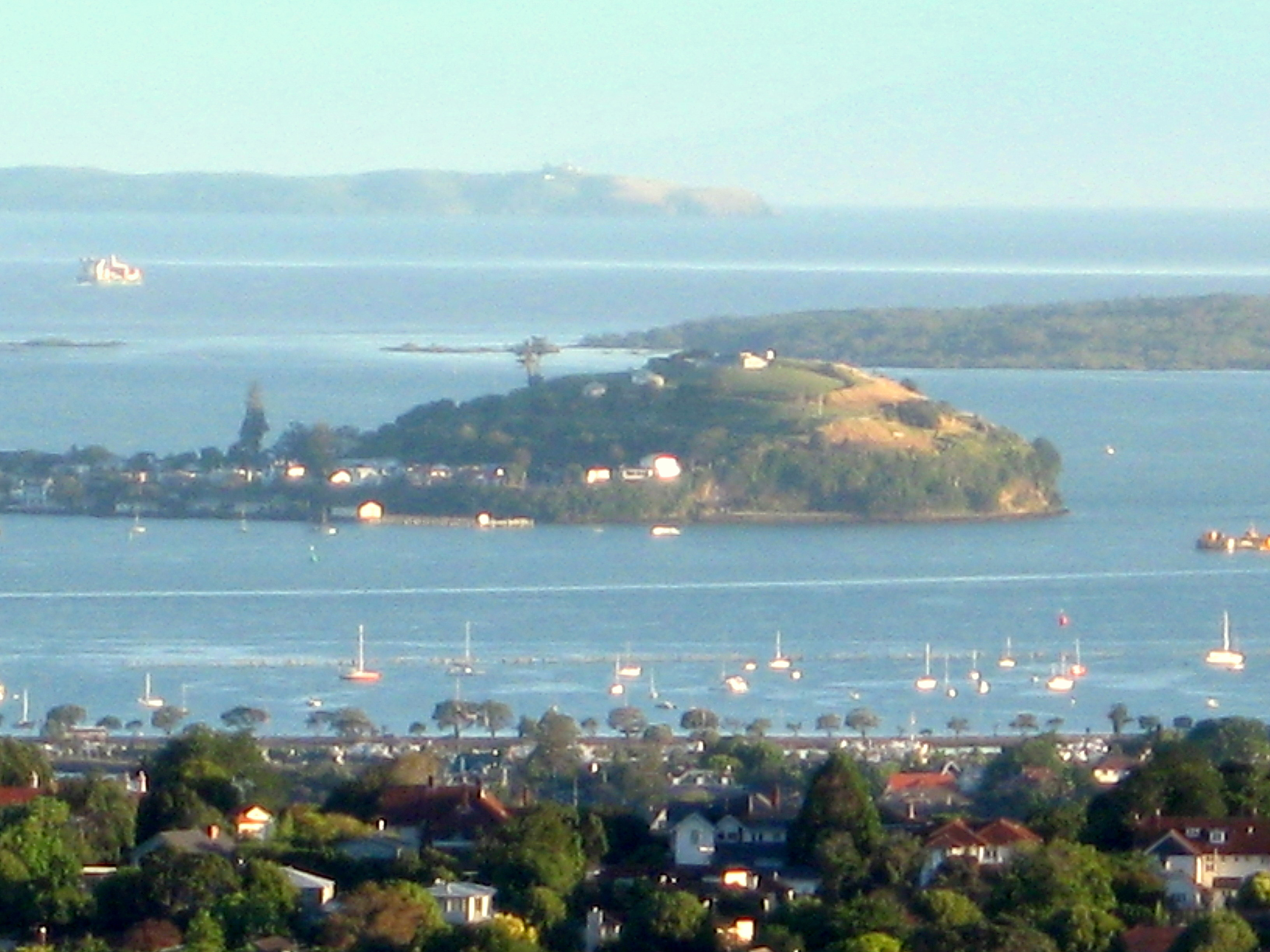 North Head at the entrance to the Watemata Harbour